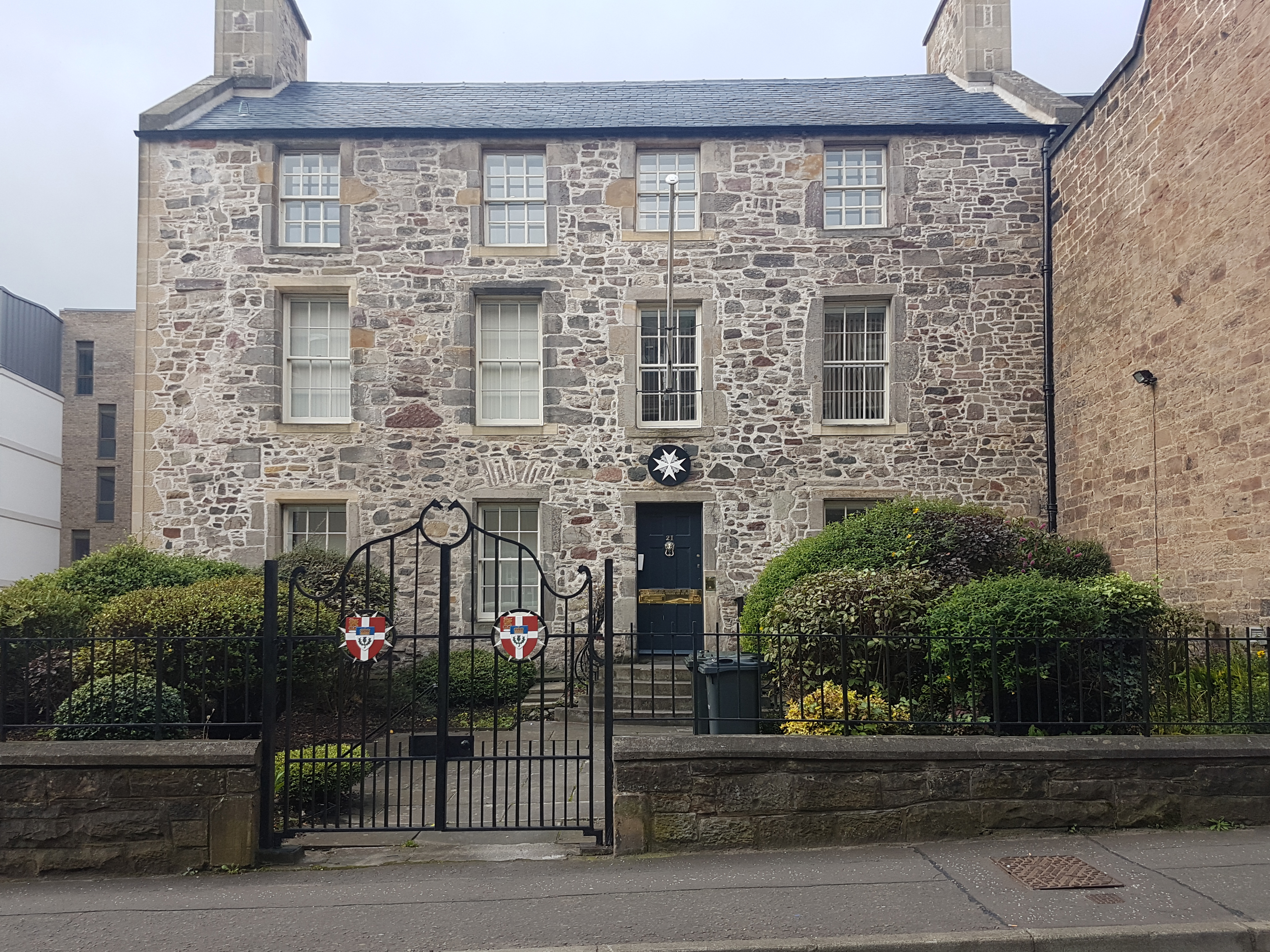 Edinburgh, Canongate, Canongate Kilwinning Lodge Wikidata has entry Q17795839 with data related to this item.